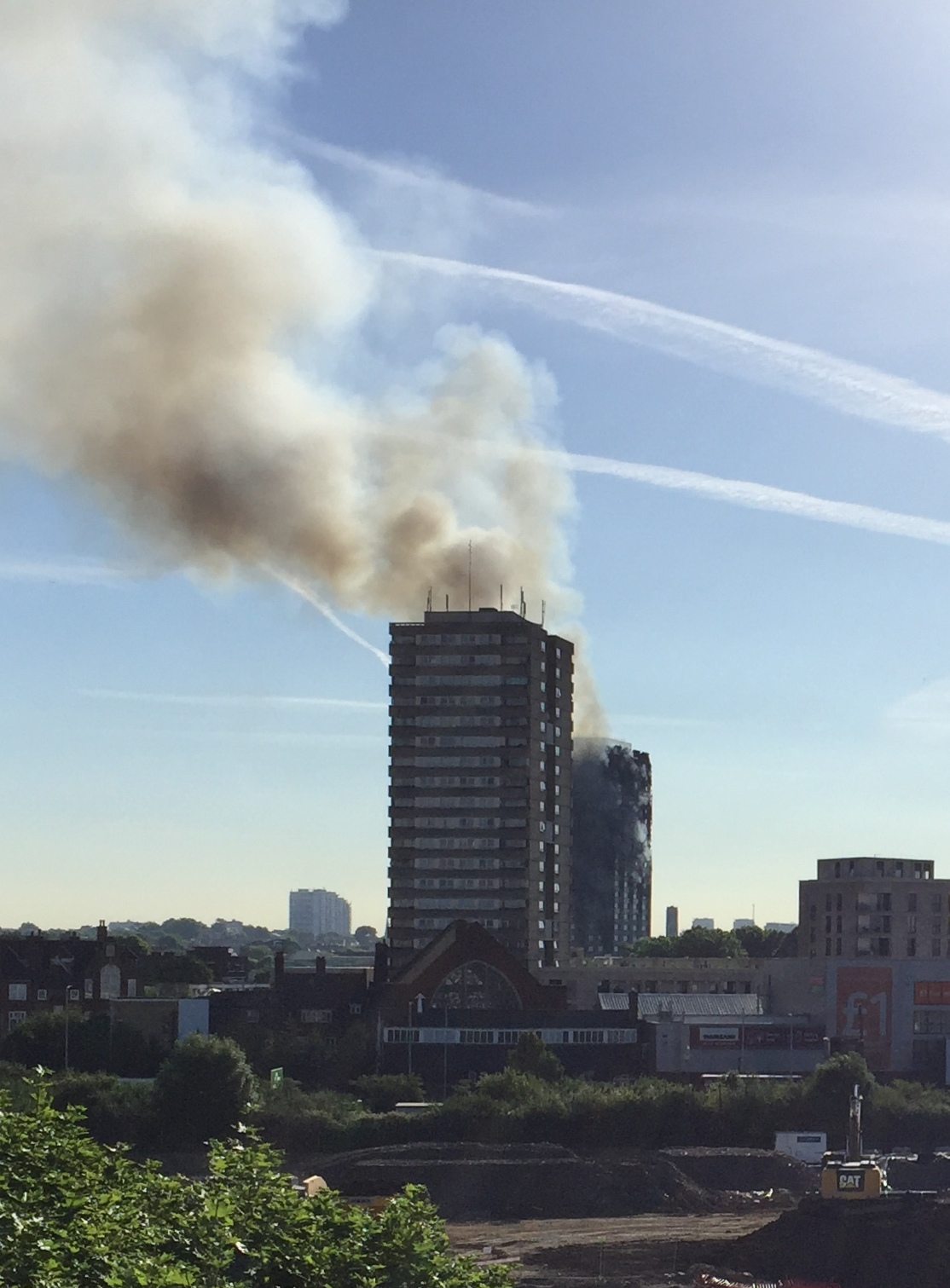 Early morning photograph of Grenfell Tower fire still smouldering after the overnight fire. Grenfell Tower is the building slightly behind, and not the tower block in the foreground, which is Frinstead House.